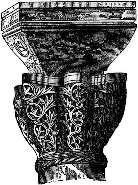 Illustration of a Byzantine capitals, from Ravenna, 8th century.